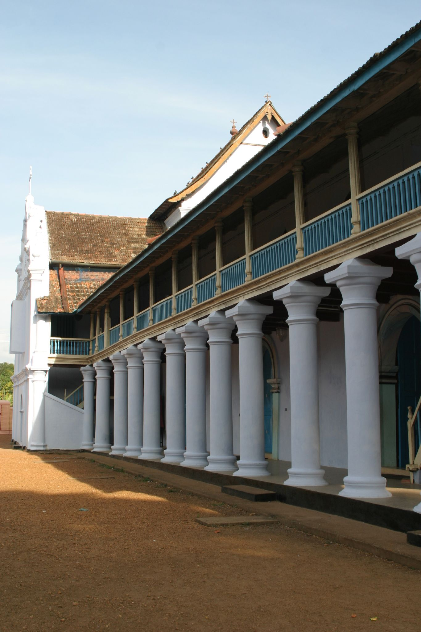 Champakulam Church is one of the oldest churches in Kerala. Champakulam St. Mary's Church is believed to be one of the seven established by St. Thomas.